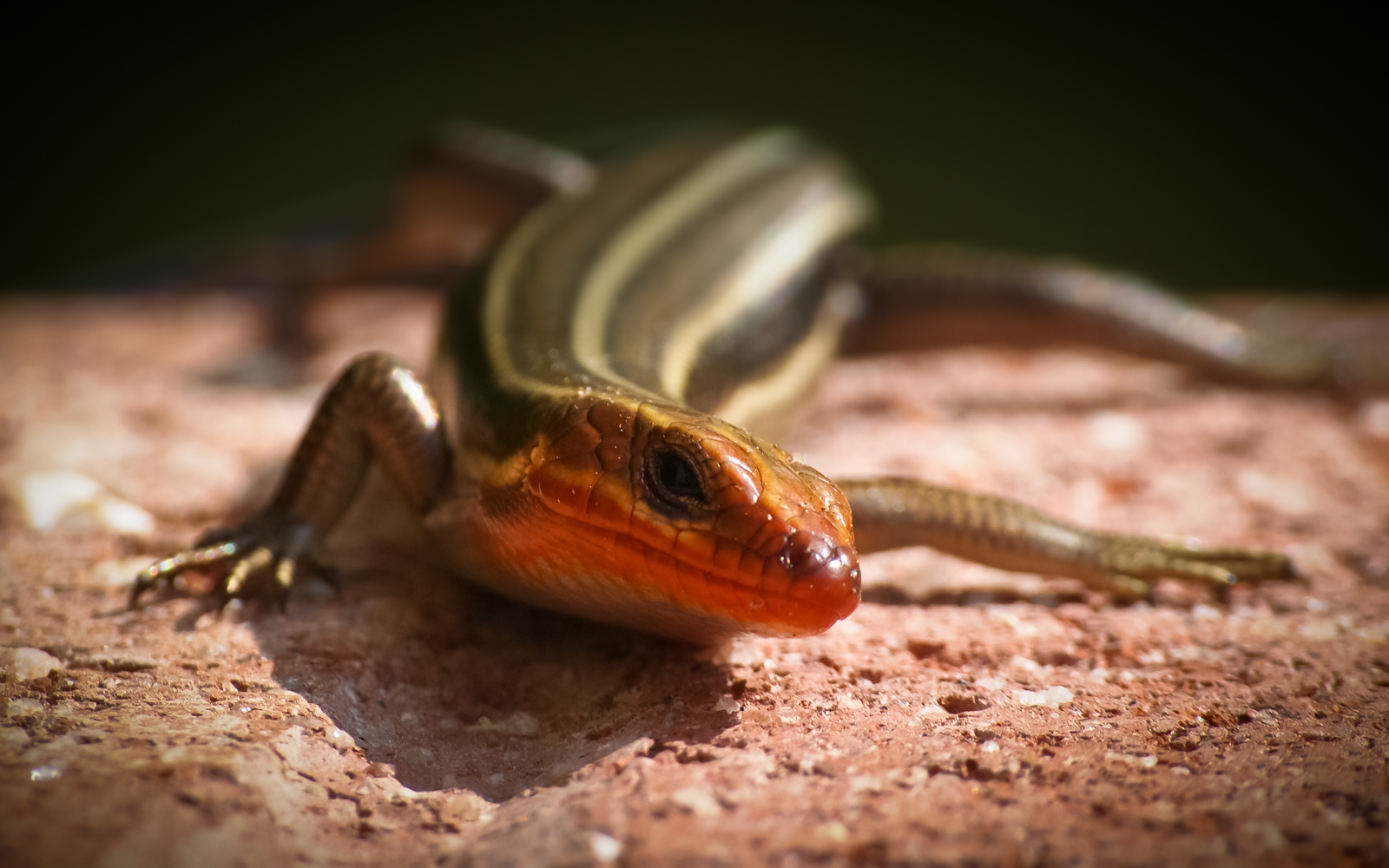 An American Five-lined Skink (Eumeces fasciatus) on a row of bricks. Photo taken with an Olympus E-5 in Caldwell County, NC, USA. Cropping and post-processing performed with Adobe Lightroom.